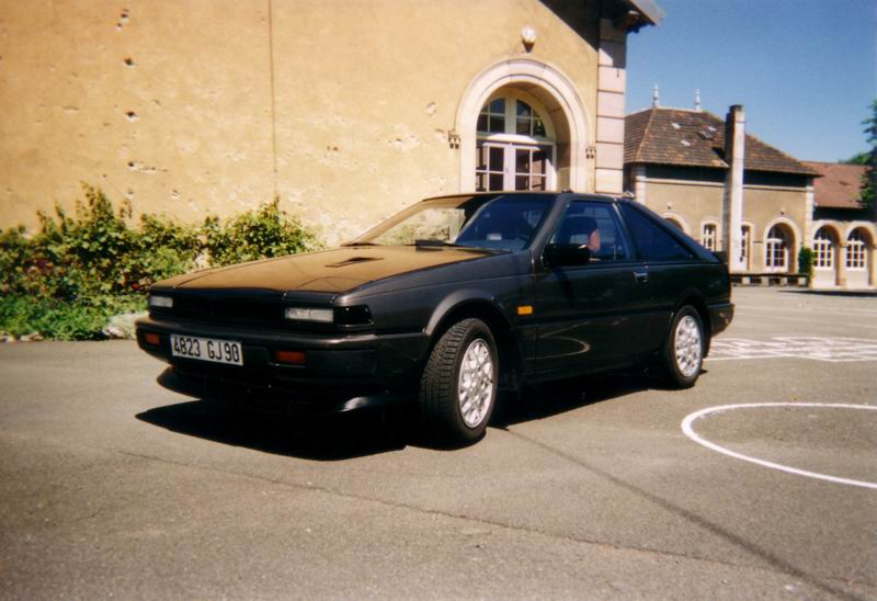 Silvia S12